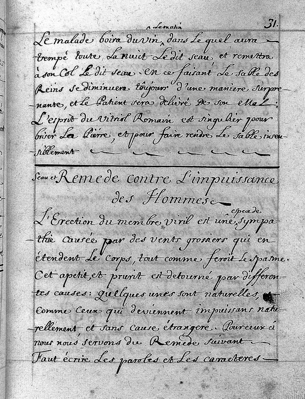 Passage regarding impotence and magic, in French. Archives & Manuscripts Keywords: impotence; Magic